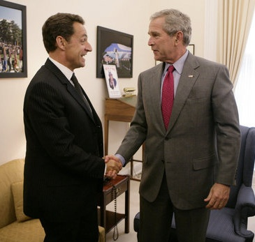 President George W. Bush drops by a meeting between National Security Advisor Stephen Hadley and France's Minister of the Interior and Regional Development Nicolas Sarkozy at the White House.